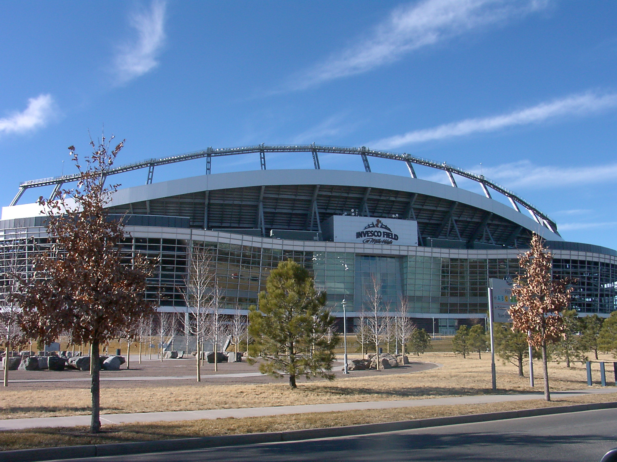 Invesco field at Mile High, home of Denver Broncos NFL team